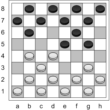 Position in opening Игра Филиппова (Igra Filippova) in russian checkers